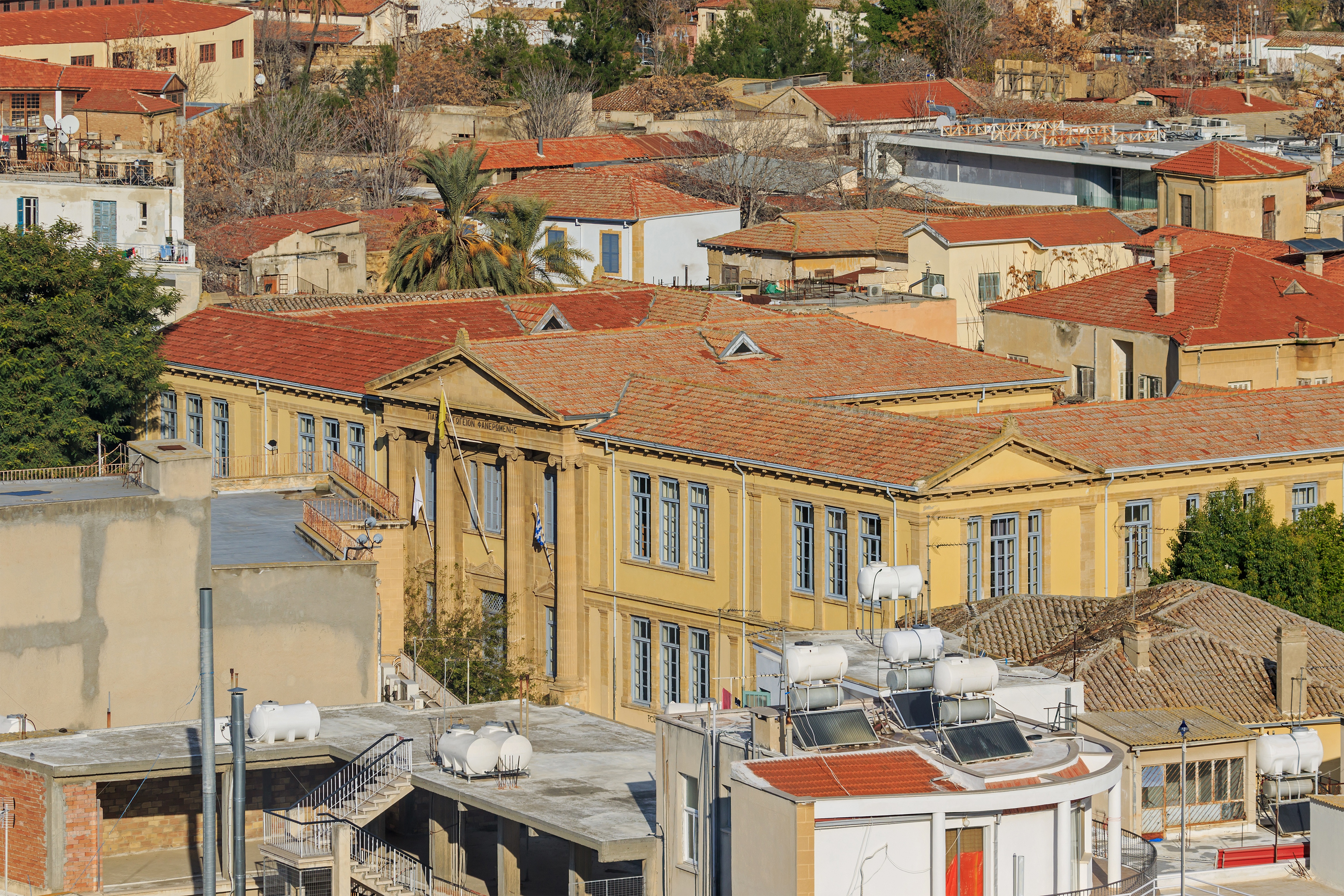 View of Faneromeni School from Shacolas Tower (Ledra Street Observatory) in Nicosia, Cyprus